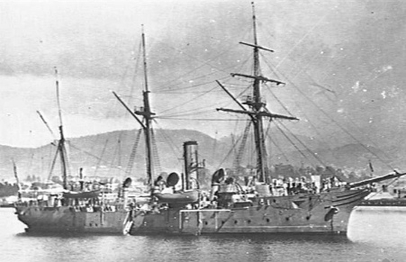 AWM caption : "HOBART, TAS. 1904. STARBOARD SIDE VIEW OF THE SLOOP HMS MUTINE."